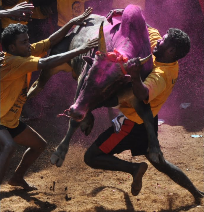 Bull taming youth, Alanganallur, Madurai, India